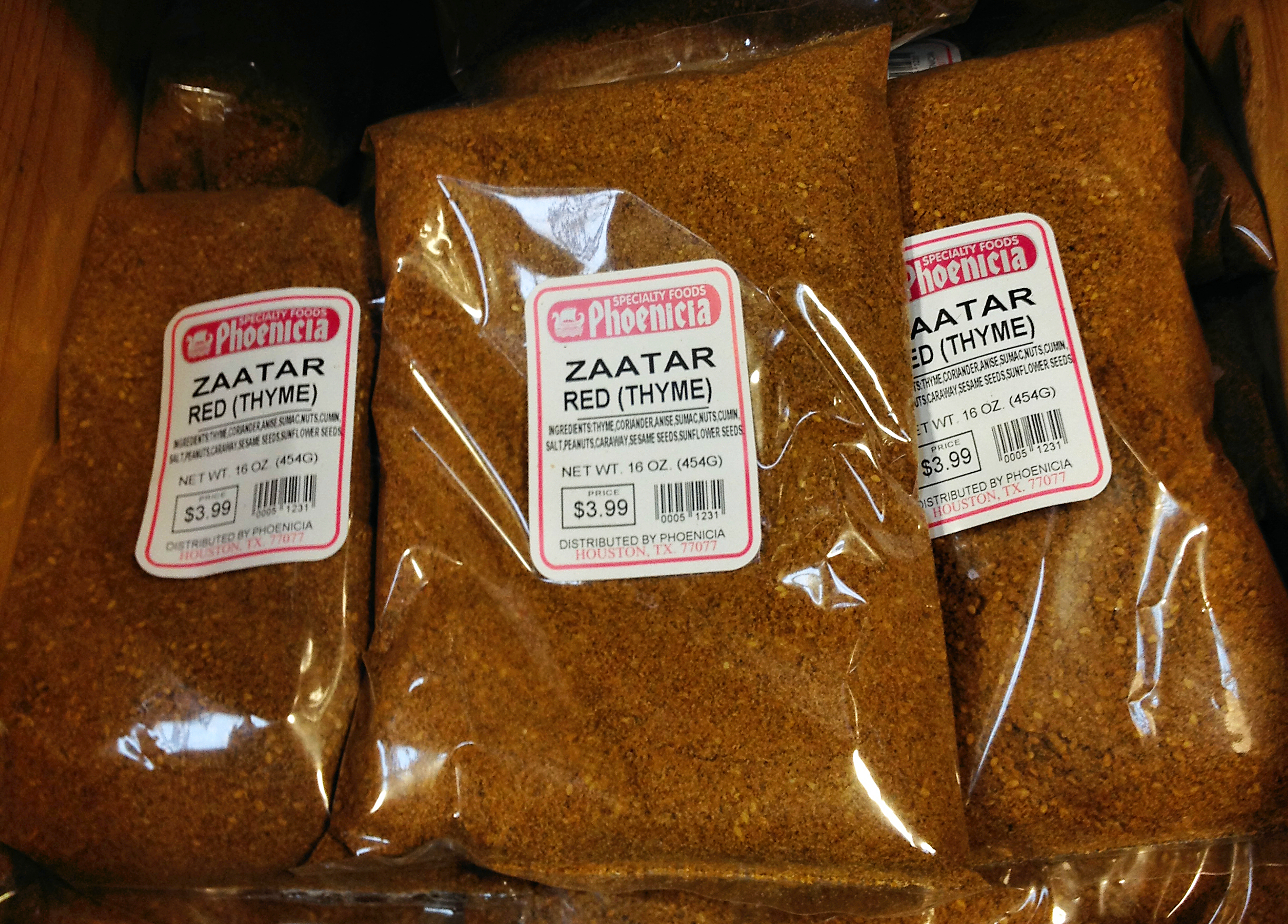 Red Zaatar